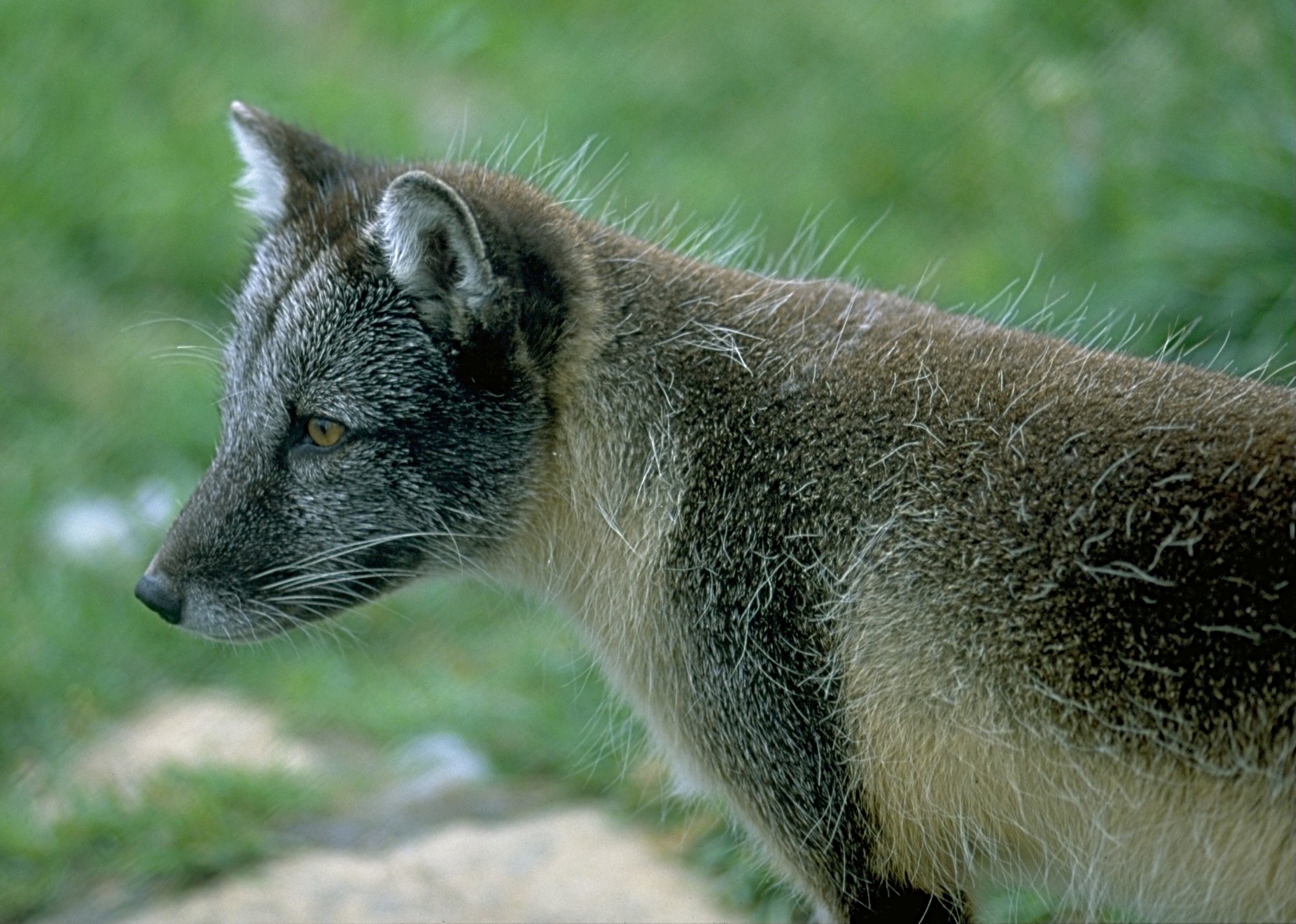 Arctic Fox in summer (taken in Numedal Zoo) Photo was taken using the following technique: Film: Fuji Velvia Lens: 2.8/100 Macro Filter: none Body: Minolta 7 Support: none Image with Information in English Bild mit Informationen auf Deutsch